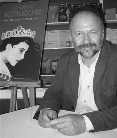 Andrey Kurkov (b. 1961) Ukrainian writer